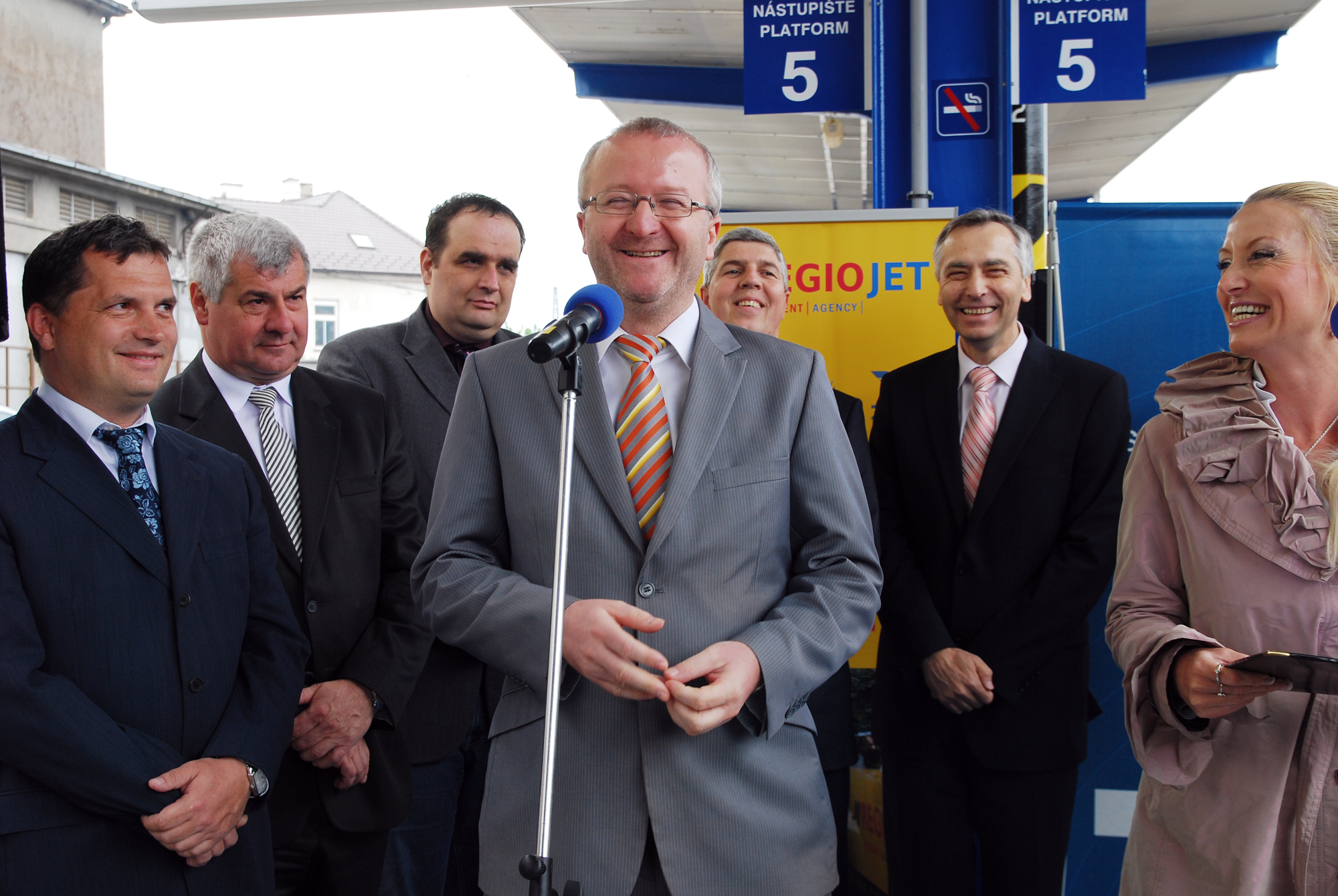 The presentation ride of the RegioJet train on the route Bratislava - Komárno. From left: József Nagy, Arpád Érsék, Pavol Frešo, Radim Jančura, Béla Bugár, Ján Figeľ